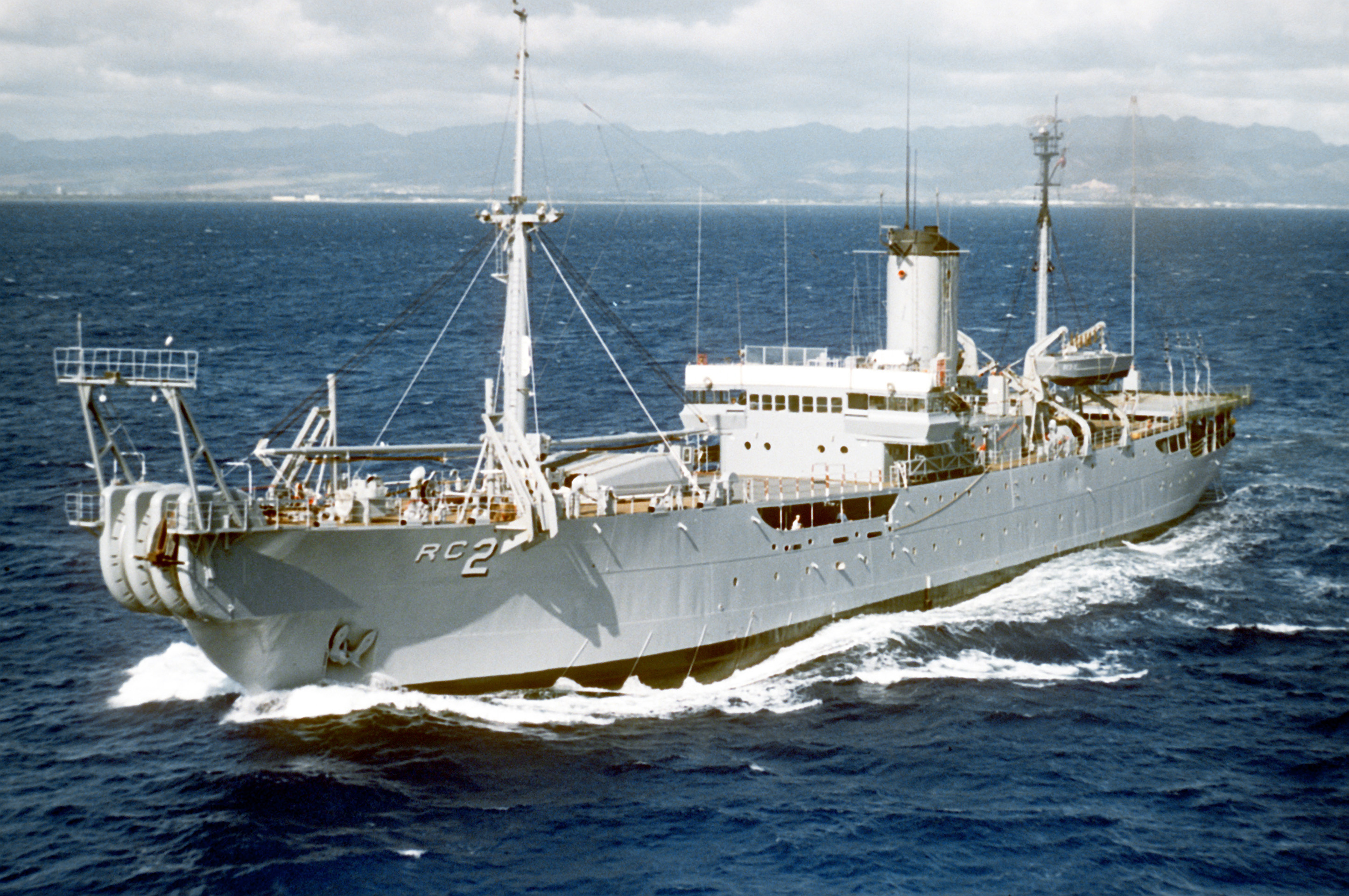 Port bow view of cable repair ship USS Neptune (ARC-2) underway off the coast of Hawaii (USA).